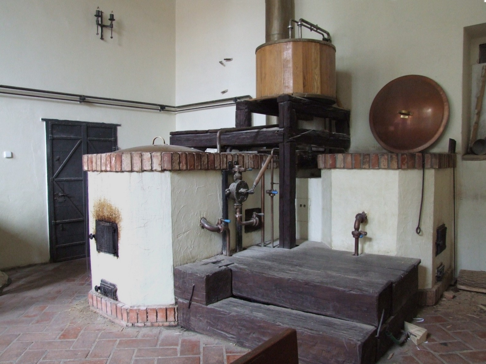 19-th century brewery installation (still working). Beer Museum in Detenice, Czechia